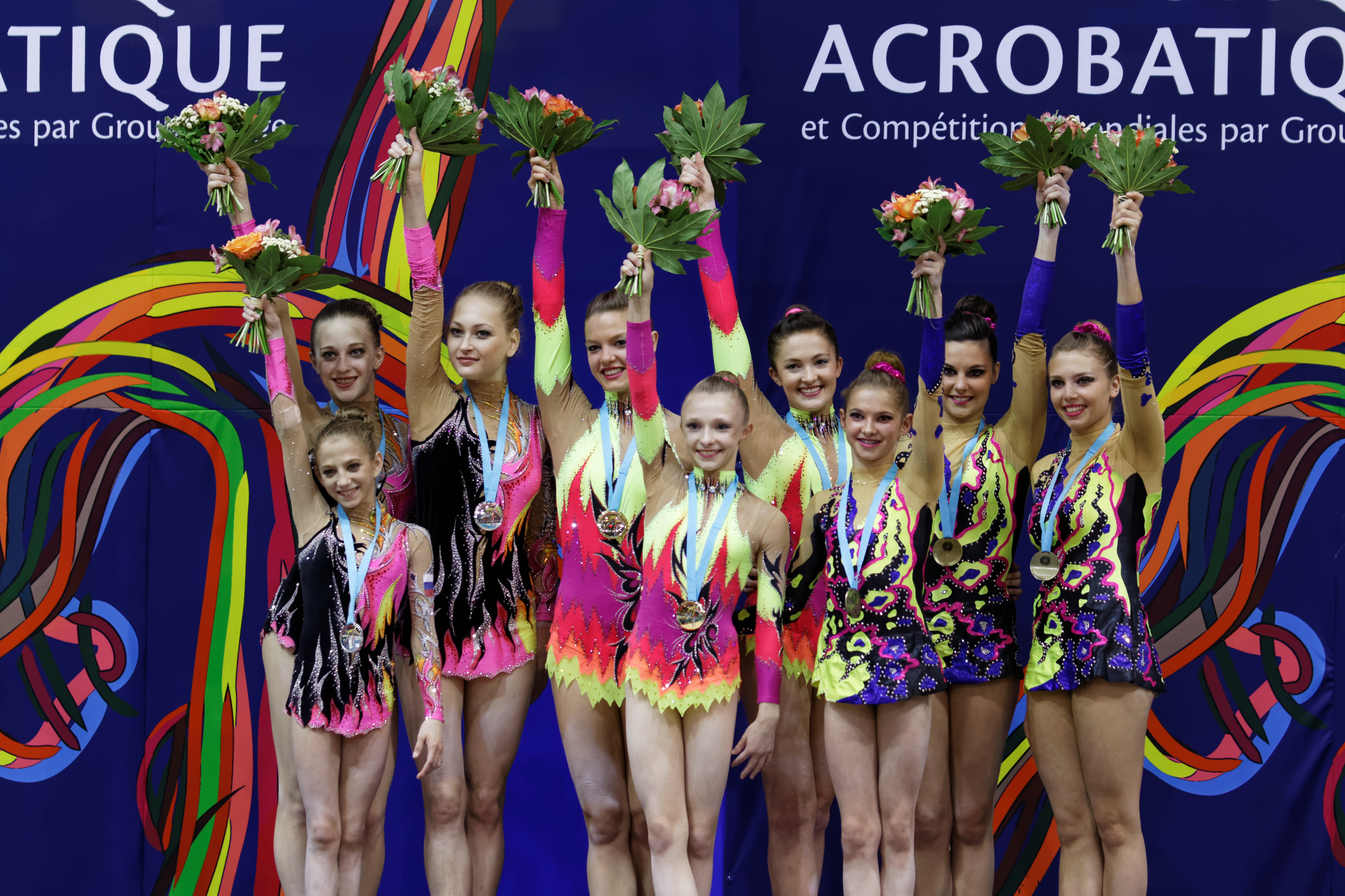 2014 Acrobatic Gymnastics World Championships, 10th-12 July, Levallois-Perret, France. Awarding ceremony.